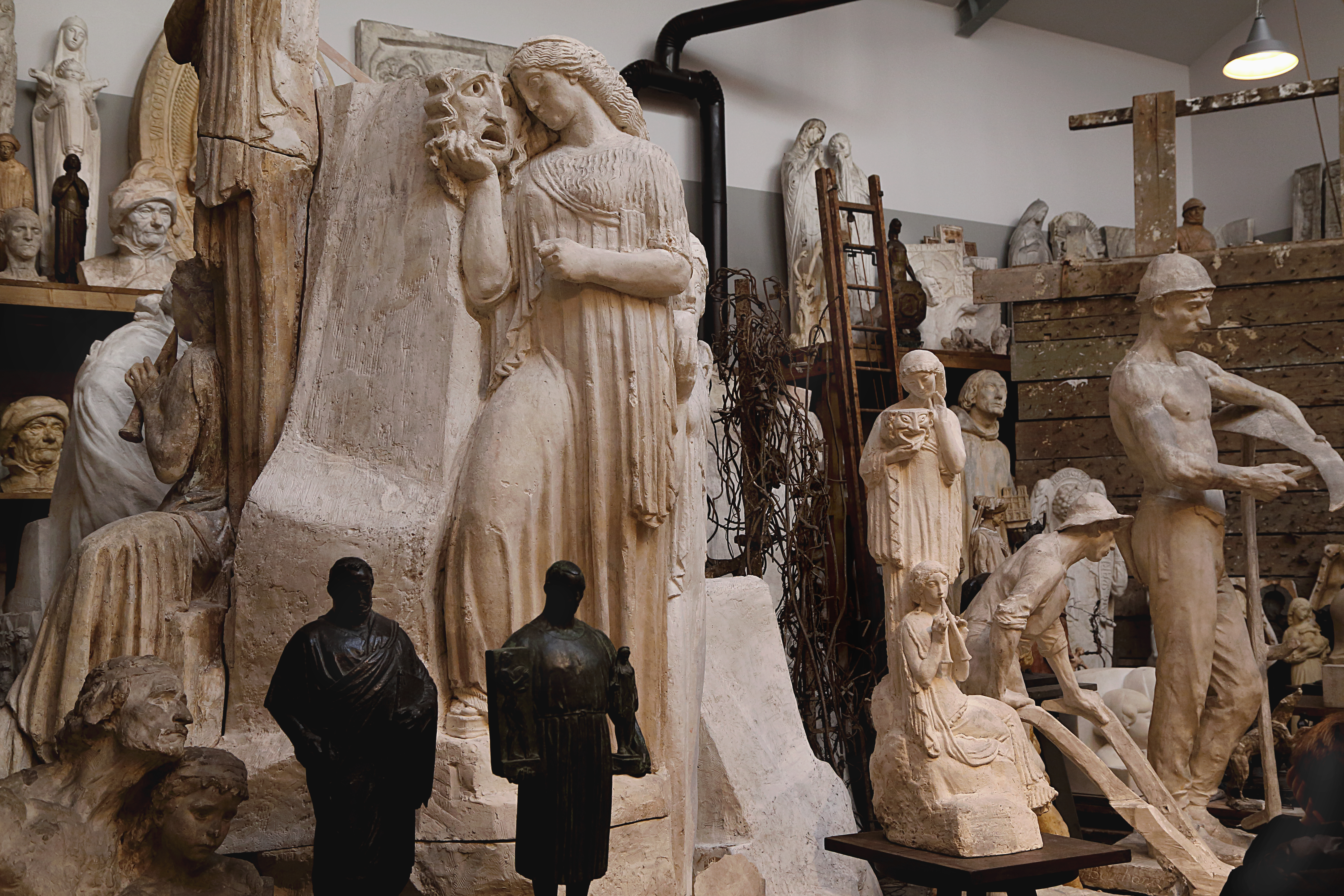 Atelier Henri Bouchard in the museum « La Piscine » of Roubaix, France.